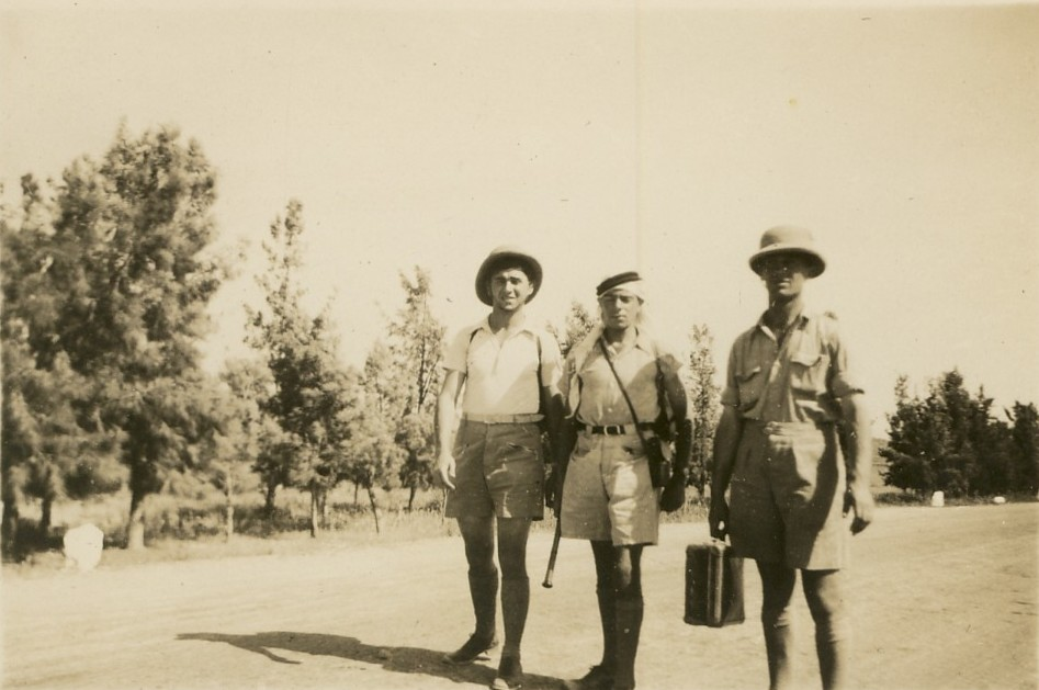 Walking in khaki shorts, socks, three quarters,Arabic kaffiyah and a cork hat, typical for travelers in costume in the 30s